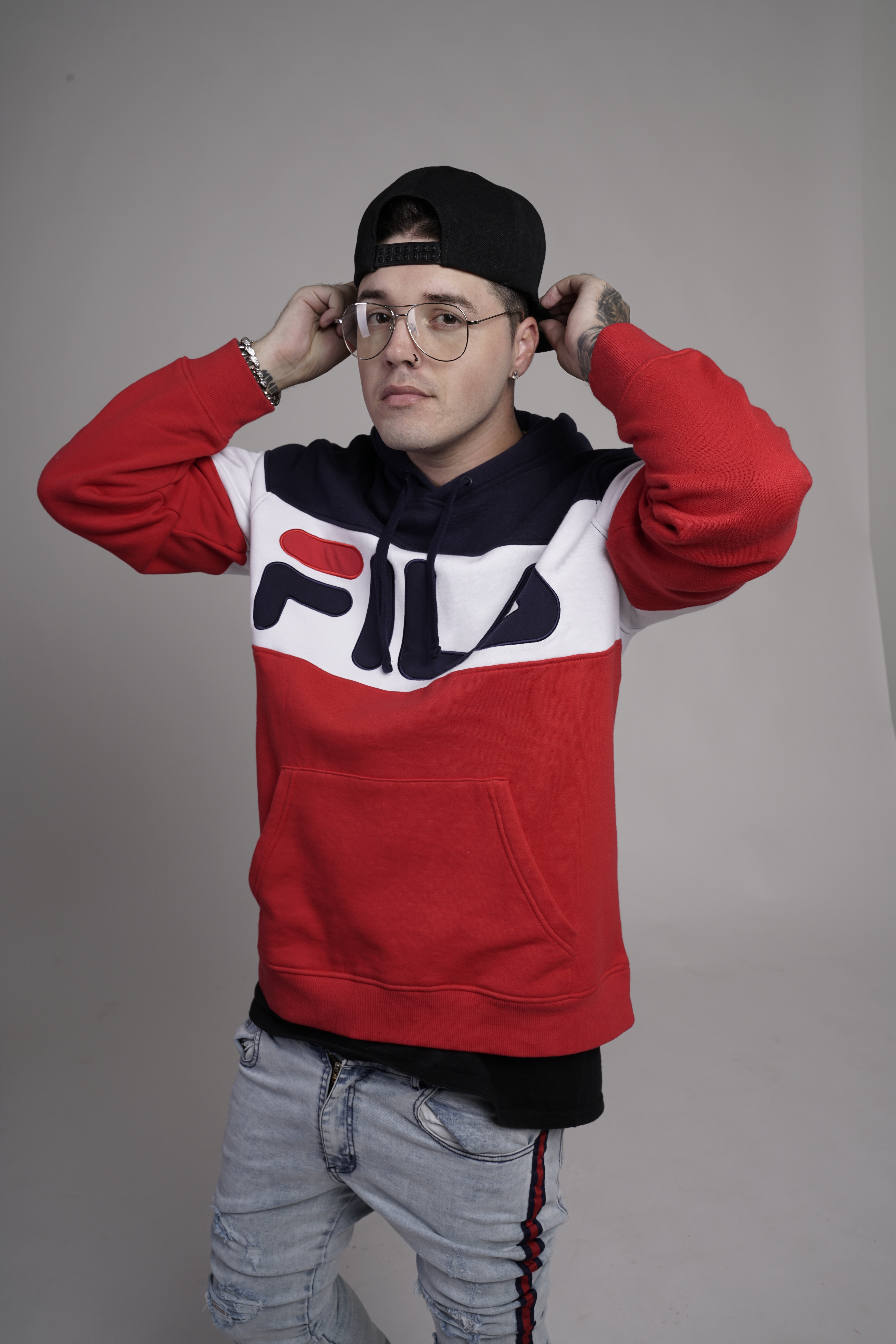 Alan Gomez - De La Calle